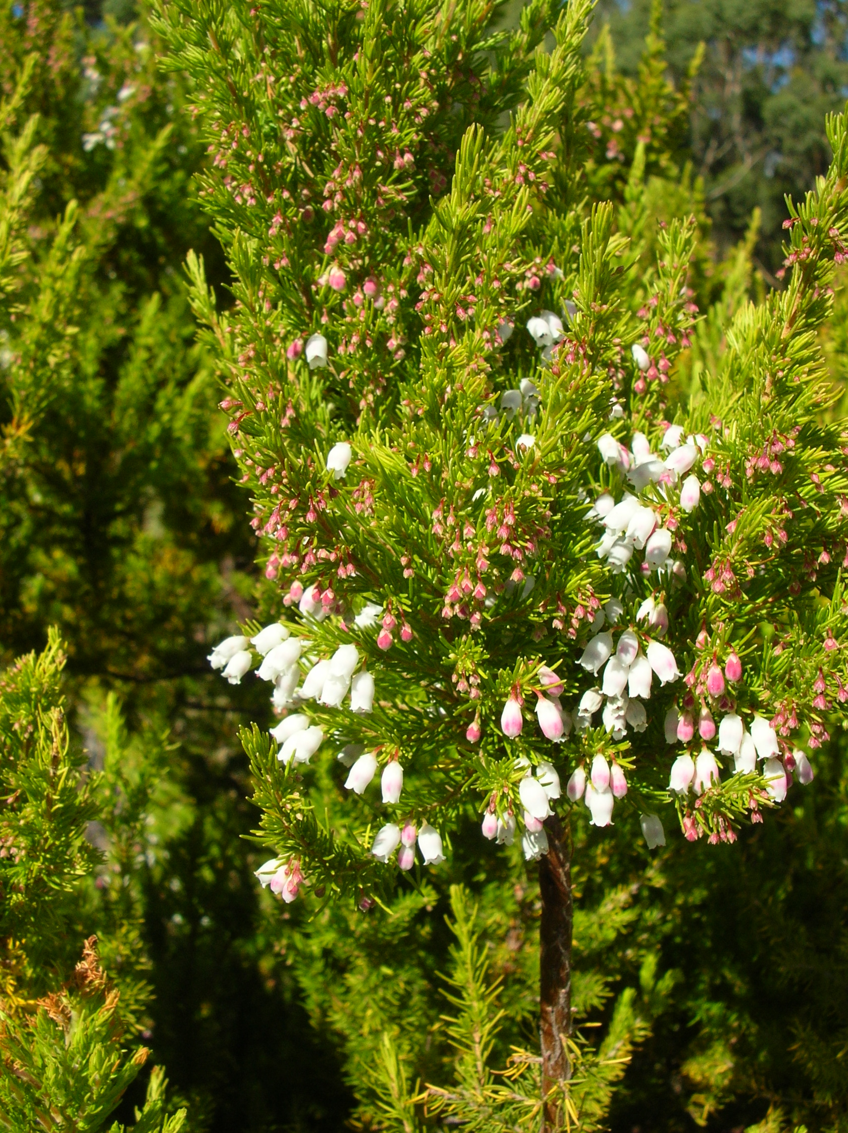 Erica lusitanica (flowers). Location: Maui, Waiale Gulch